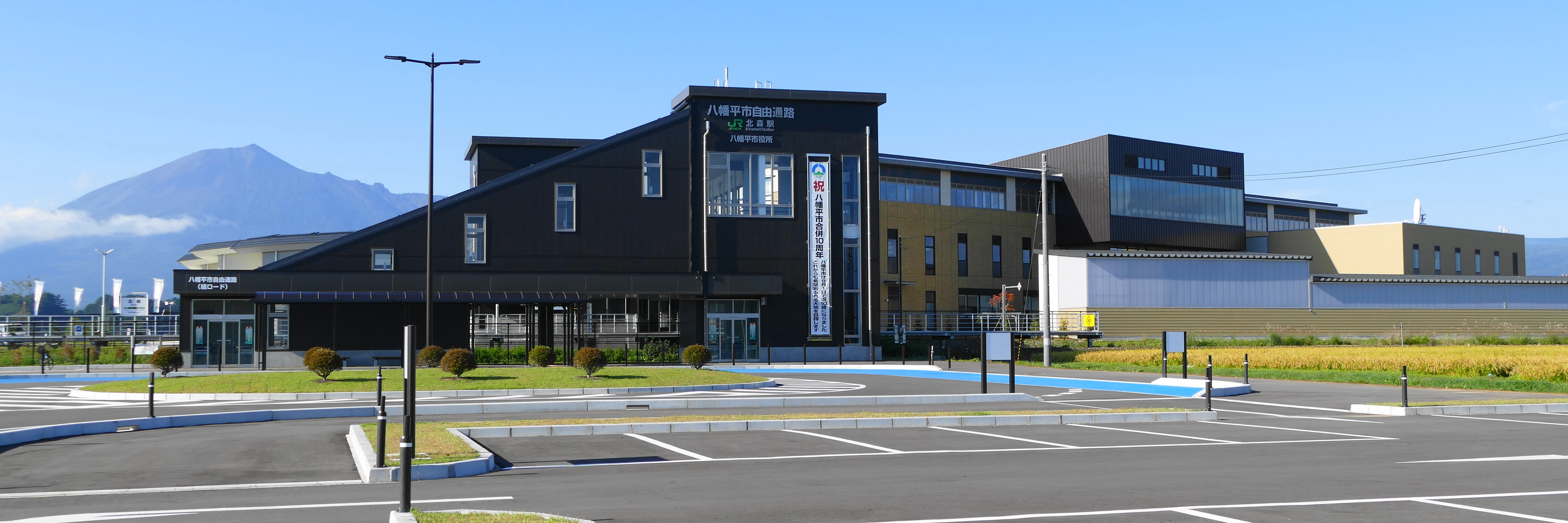 Left:Mount Iwate,Center:Kitamori Station,Right:Hachimantai city hall,Iwate prefecture,Japan